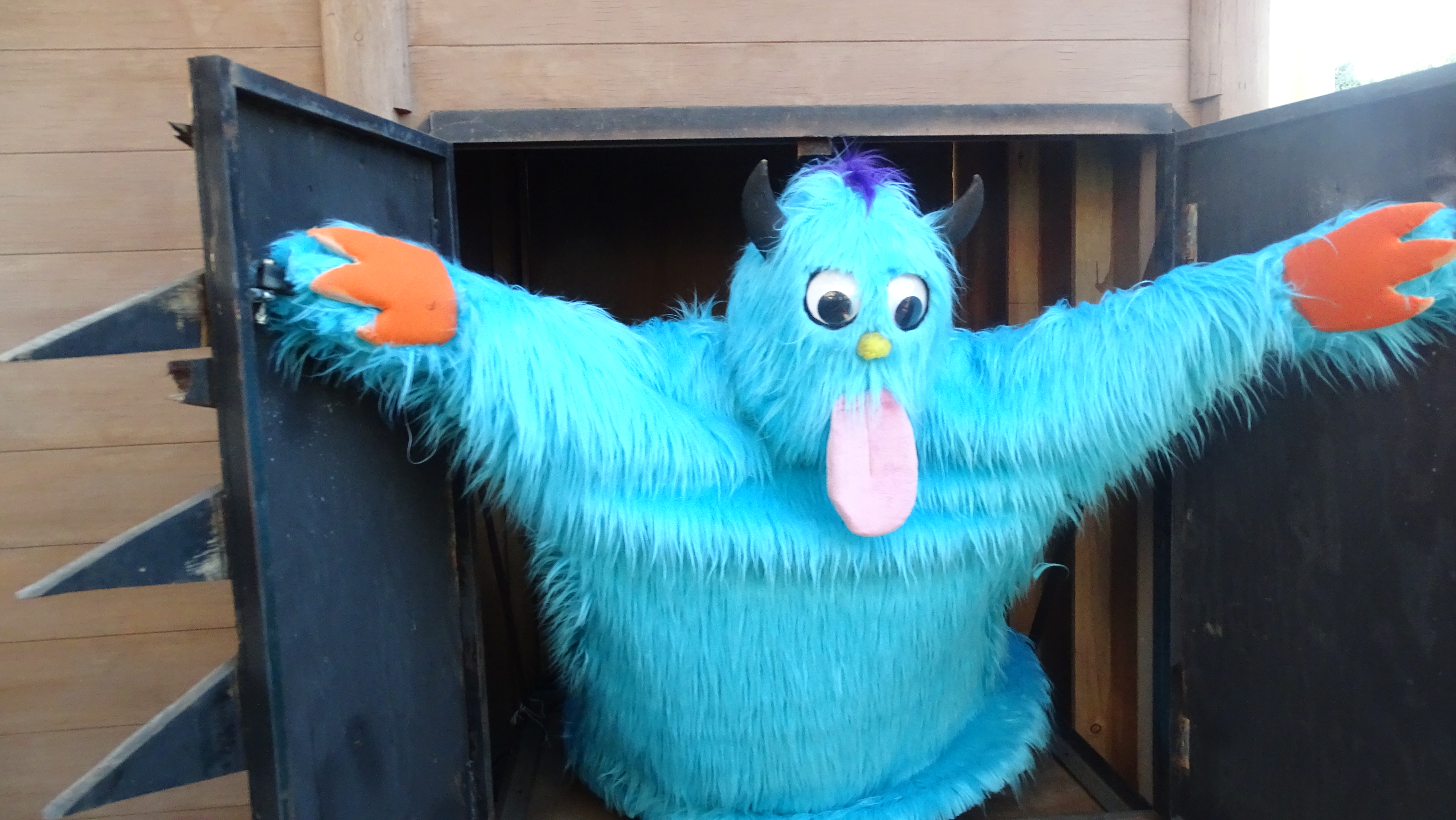 During Knott's Spooky Fram, the Grand Sierra Railroad features a Halloween family friendly overlay